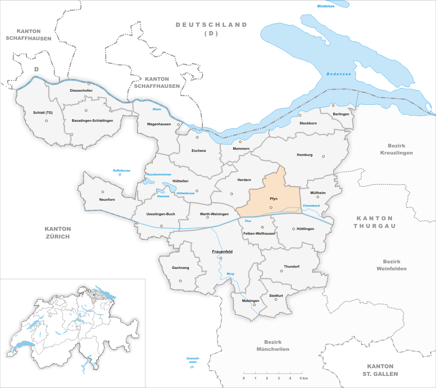 Municipality Pfyn